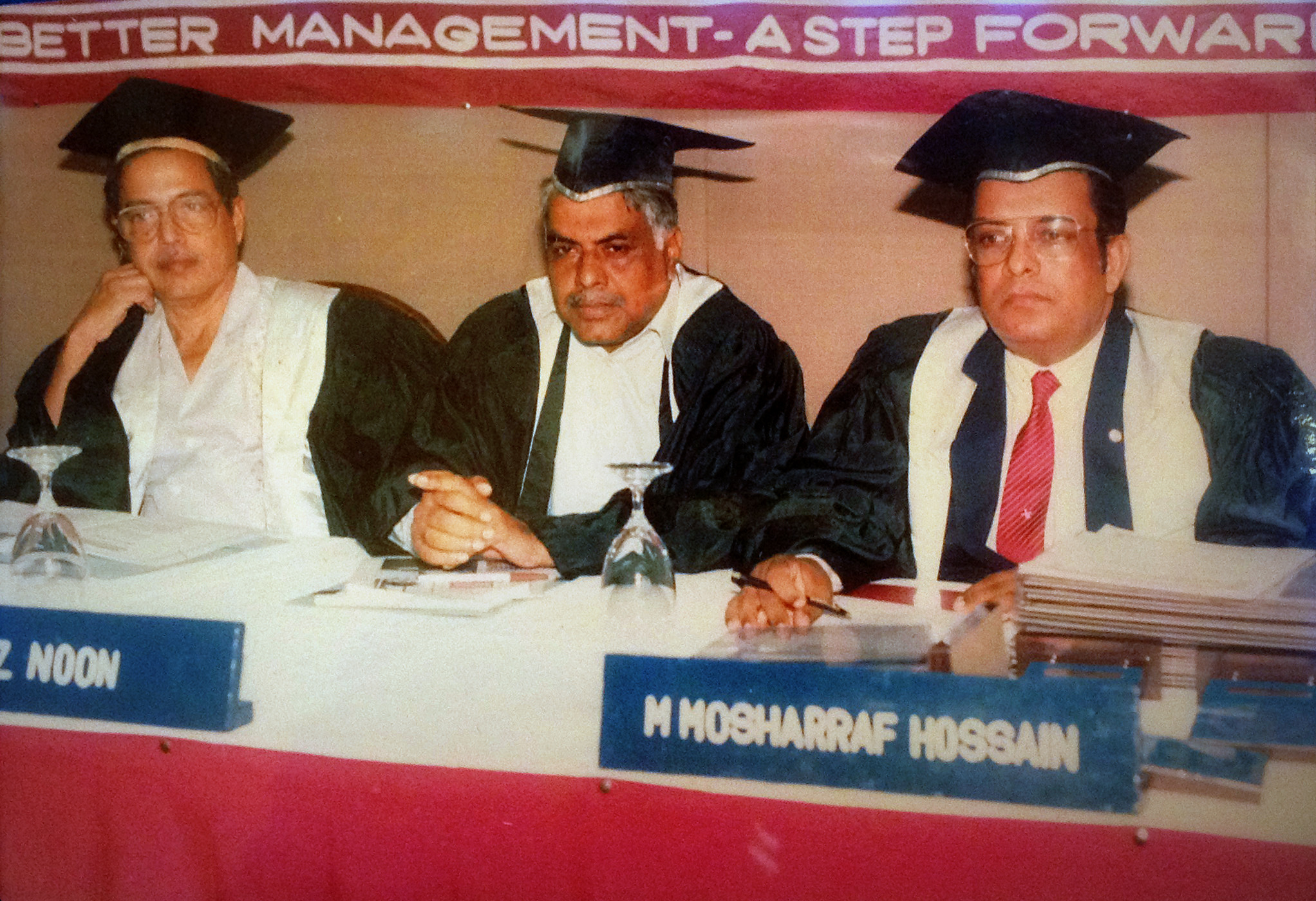 Firoze Noon Education Sector